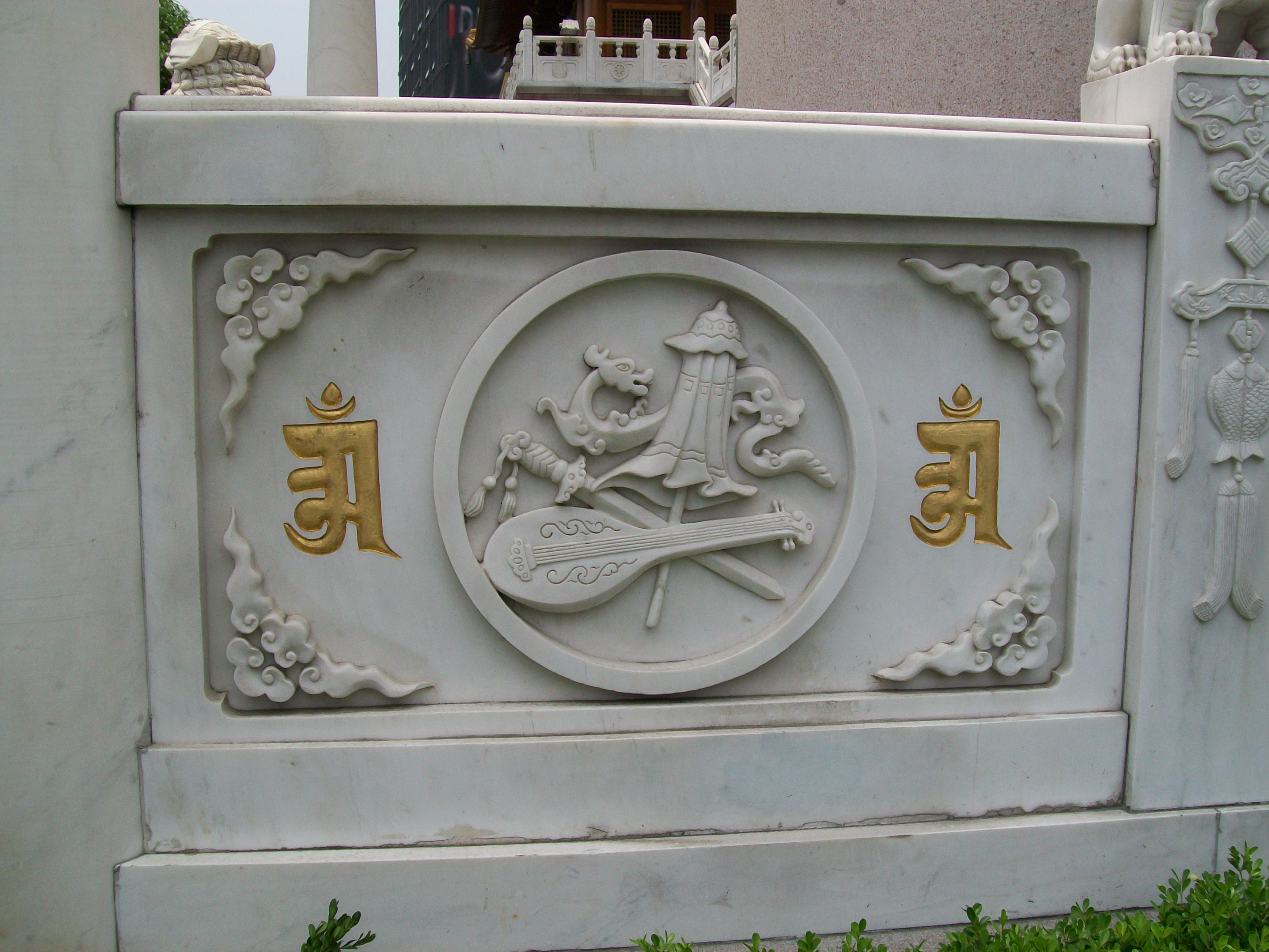 Two Sanskrit "Oṃ" syllables on both sides of a stone carving at Jing'an Temple, Shanghai, China. Ranjana script was developed in India and used in Buddhist art throughout East Asia. The central carving depicts the four implements of the Four Heavenly Kings (Skt. Caturmahārāja) of Buddhist cosmology, the guardians of Mount Sumeru.